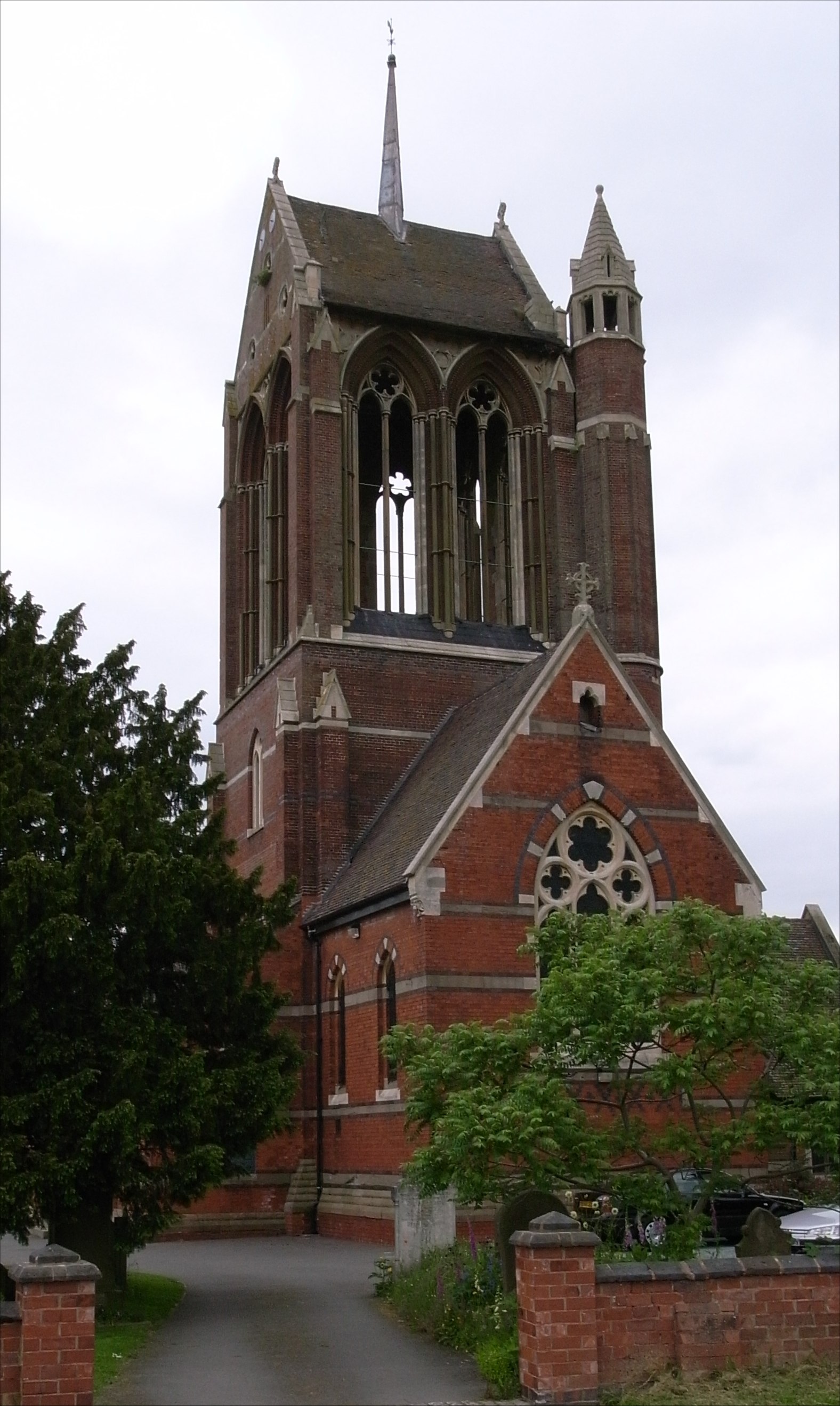 Chancel and crossing tower of the former parish church of St Mary, Wythall, Worcestershire, seen from the east. Now a redundant church, put to commercial use by an electrical company.